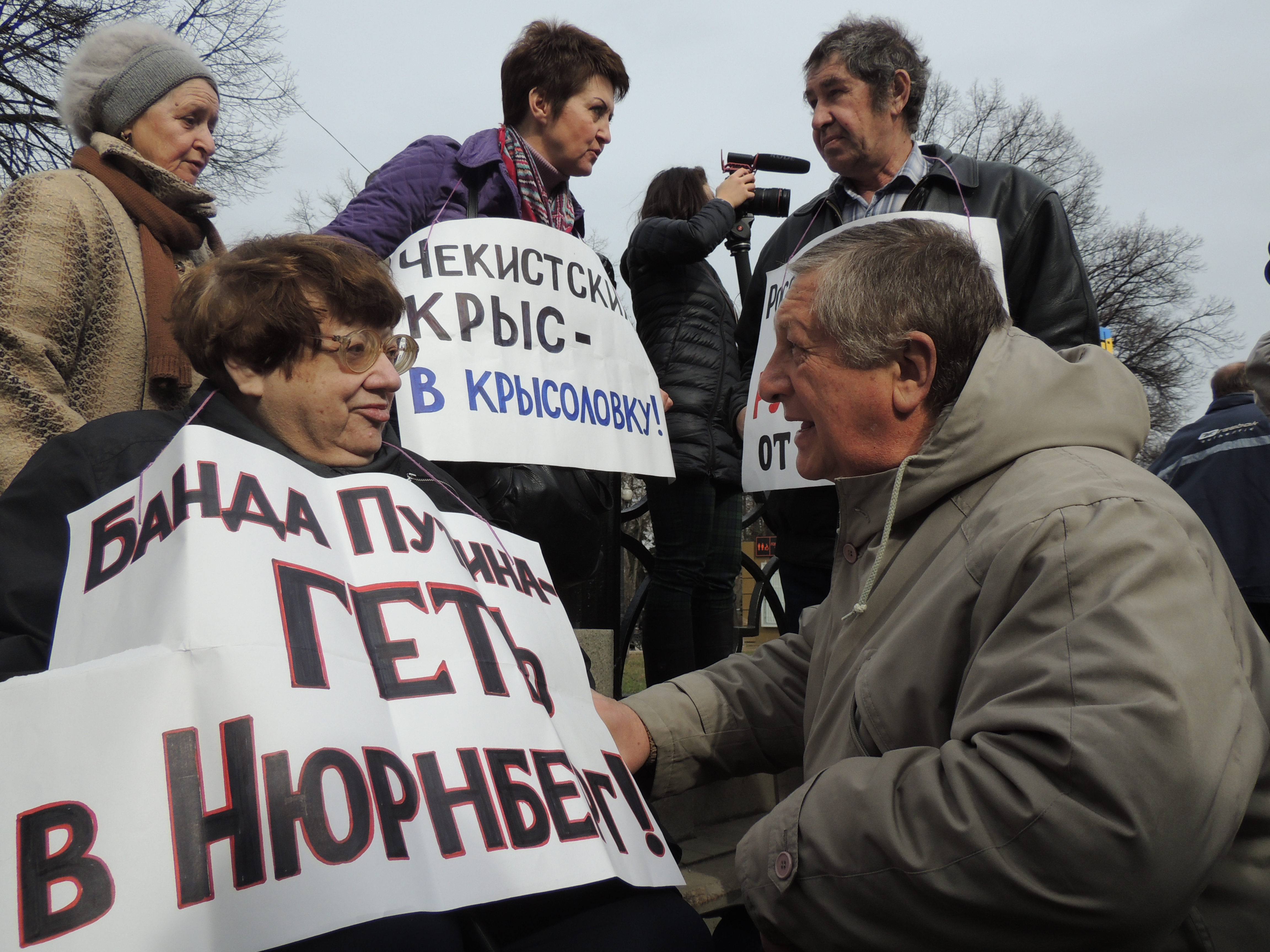 Valeriya Novodvorskaya and Konstantin Borovoy at March of Peace (2014-03-15, Moscow)